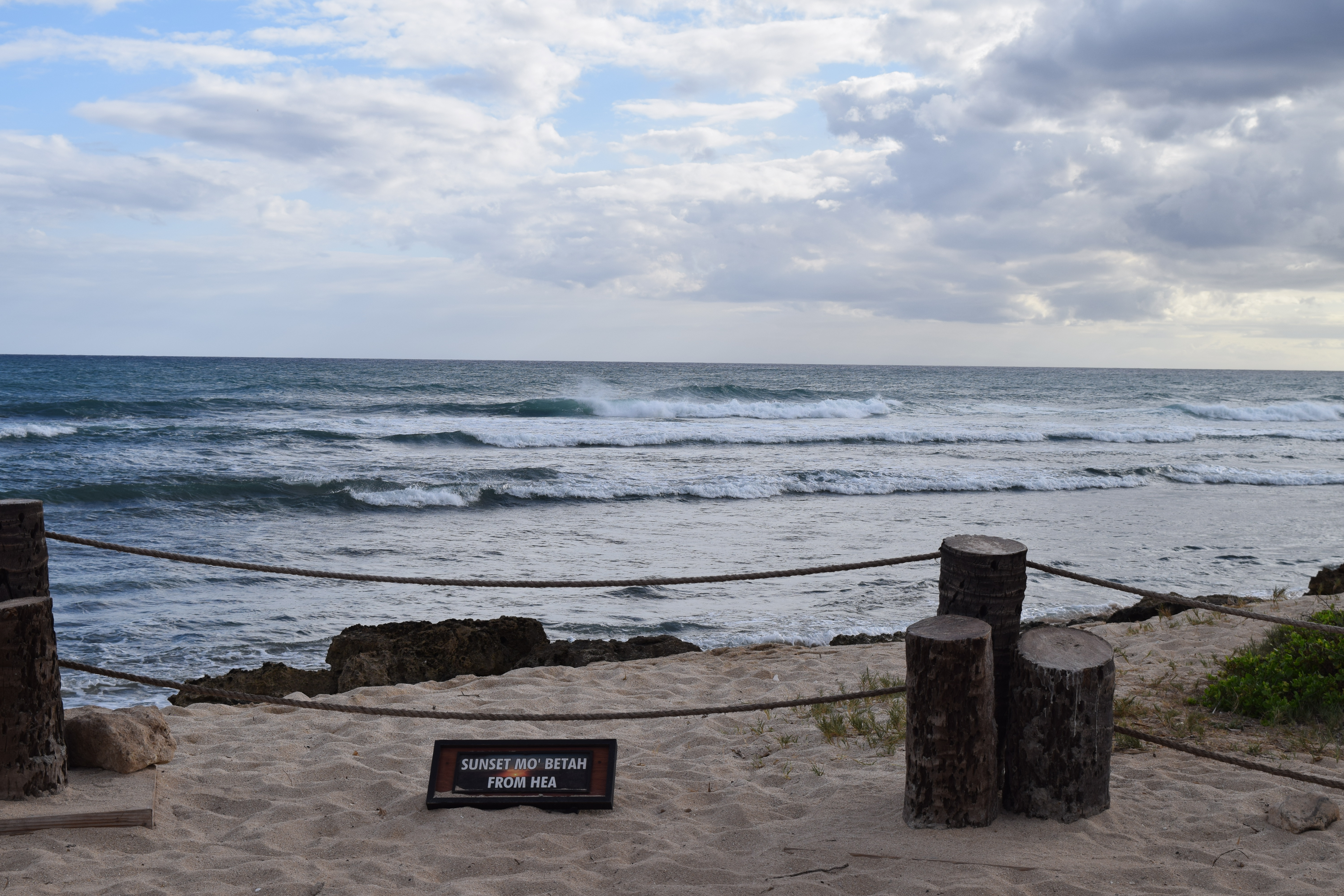 Ewa beach outlook.